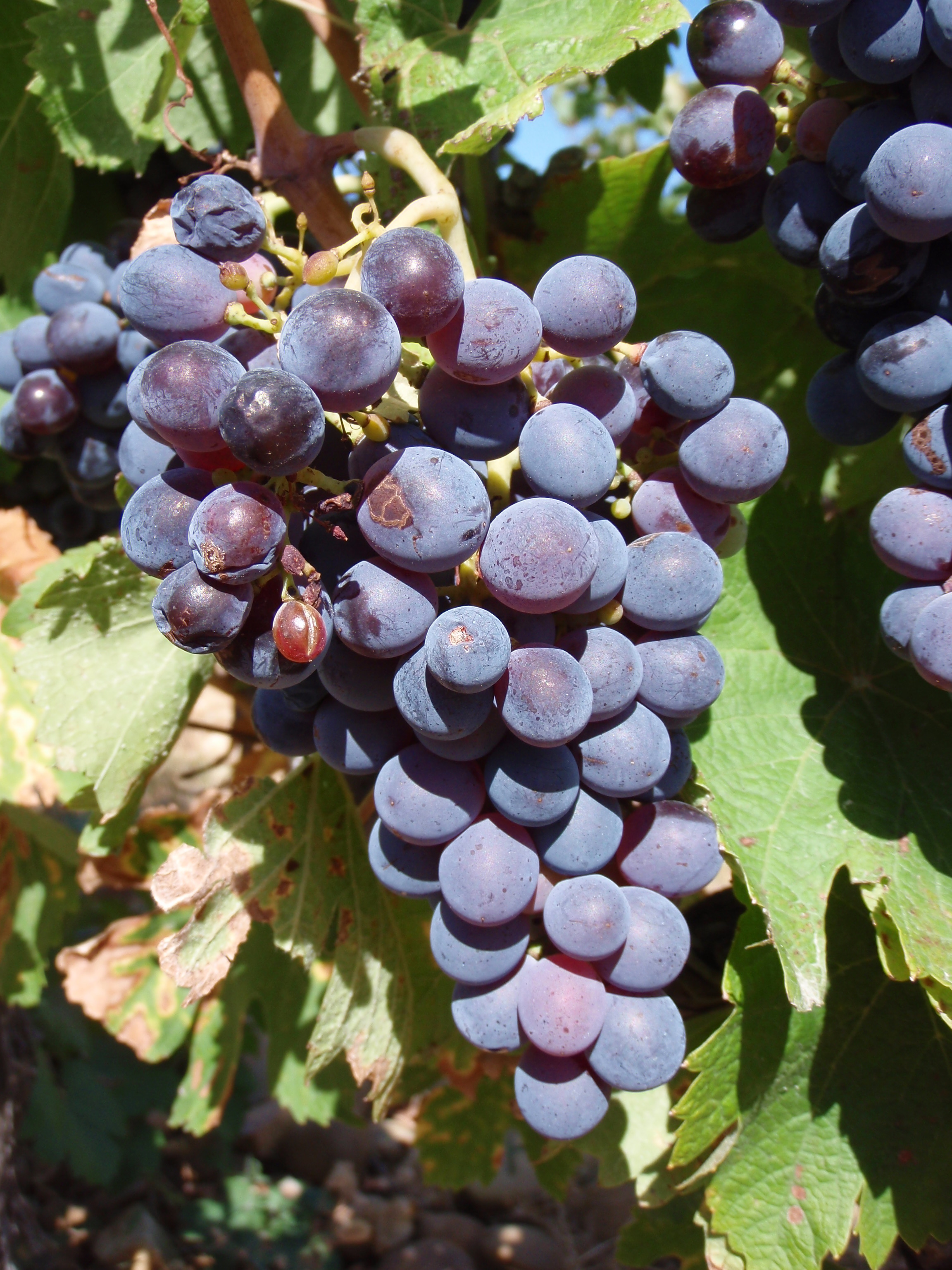 Piquepoul noir grape variety